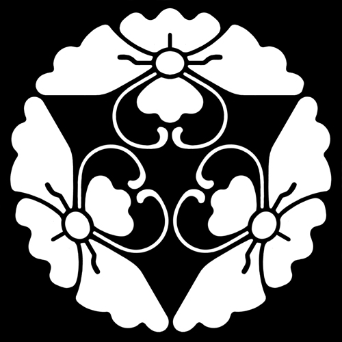 Mitsu hanabishi chō mon, a type of hanabishi mon, shaped "chō" (butterfly), arranged three-radial symmetry